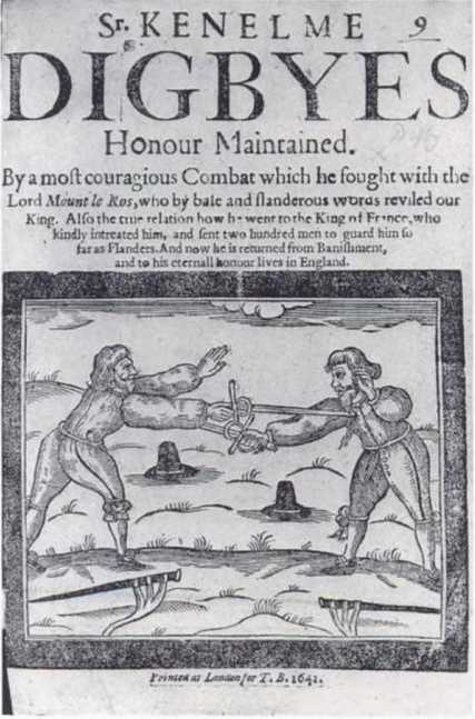 Title page of "Sr. Kenelme Digbyes honour maintained", 1641